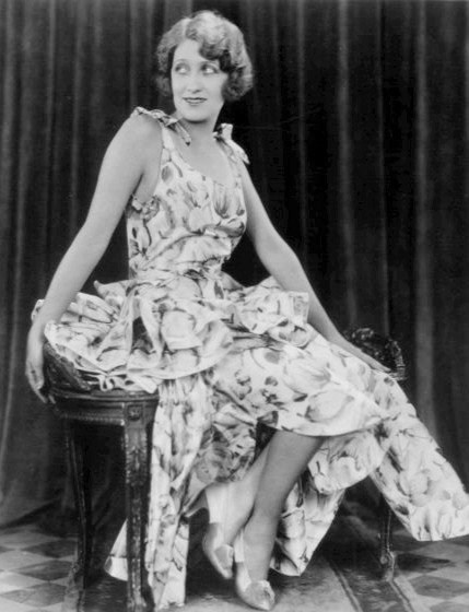 Photo of singer-actress Ruth Etting.